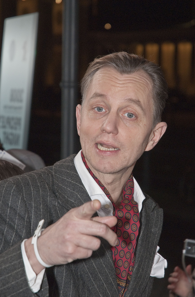 Again Max Raabe, German musician Volkswagen People’s Night 2008